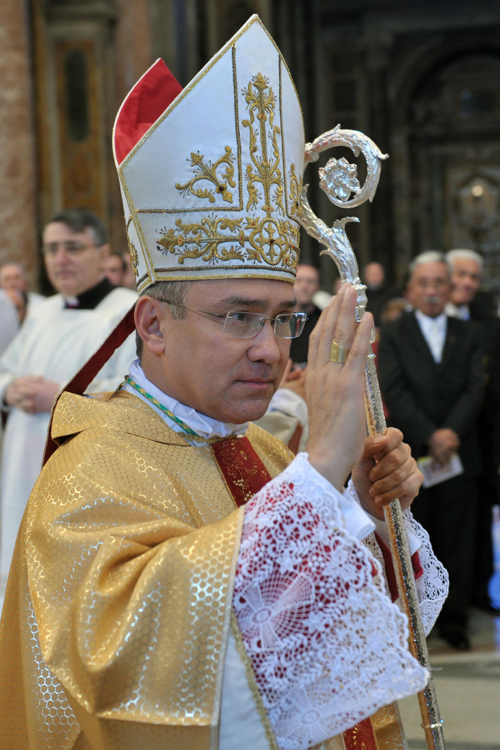 Edgar Pena Parra